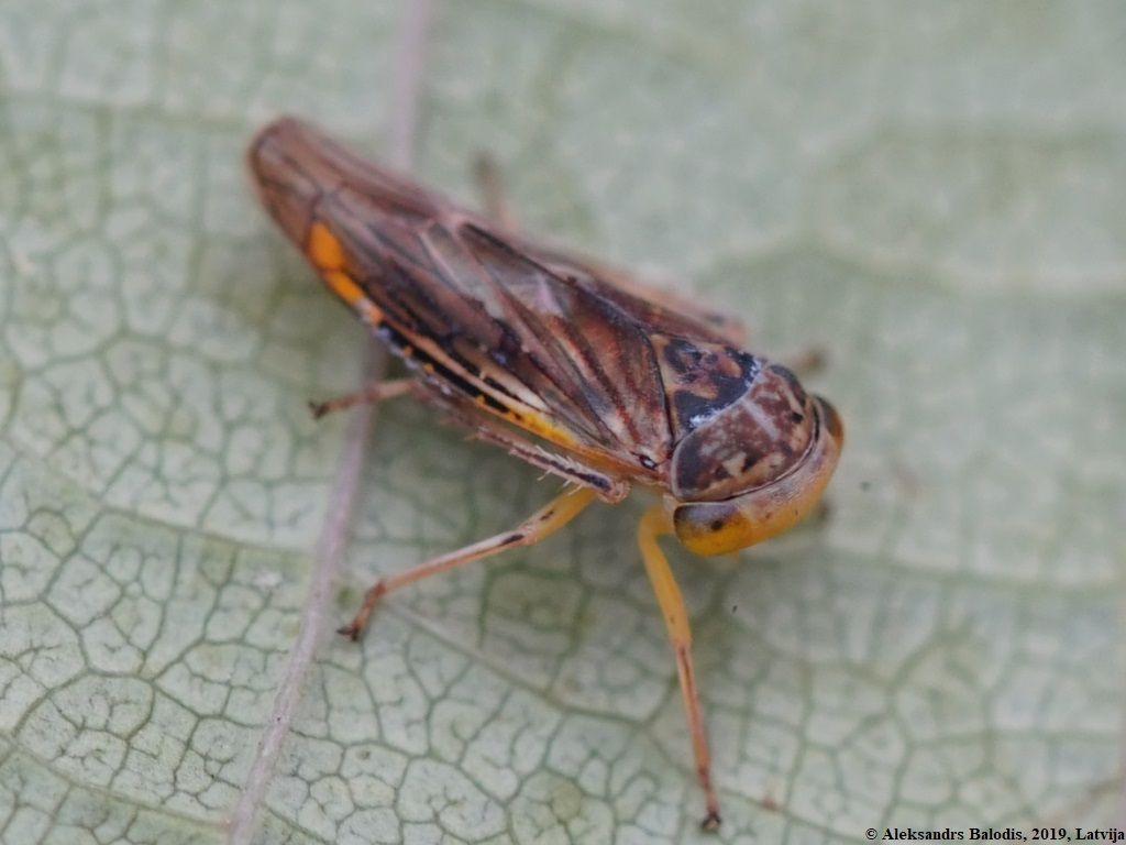 Idiocerus stigmaticalis